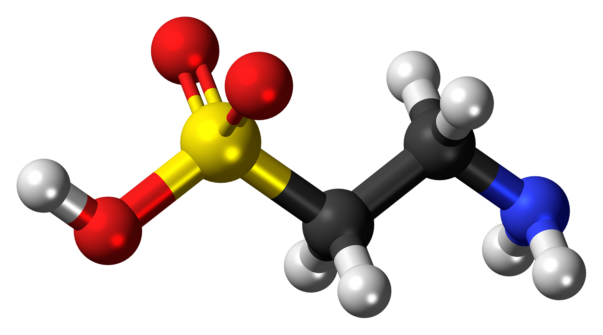 Ball-and-stick model of the taurine molecule, a major constituent of bile. This image shows the electrically neutral form. Color code: Carbon, C: black Hydrogen, H: white Oxygen, O: red Nitrogen, N: blue Sulfur, S: yellow